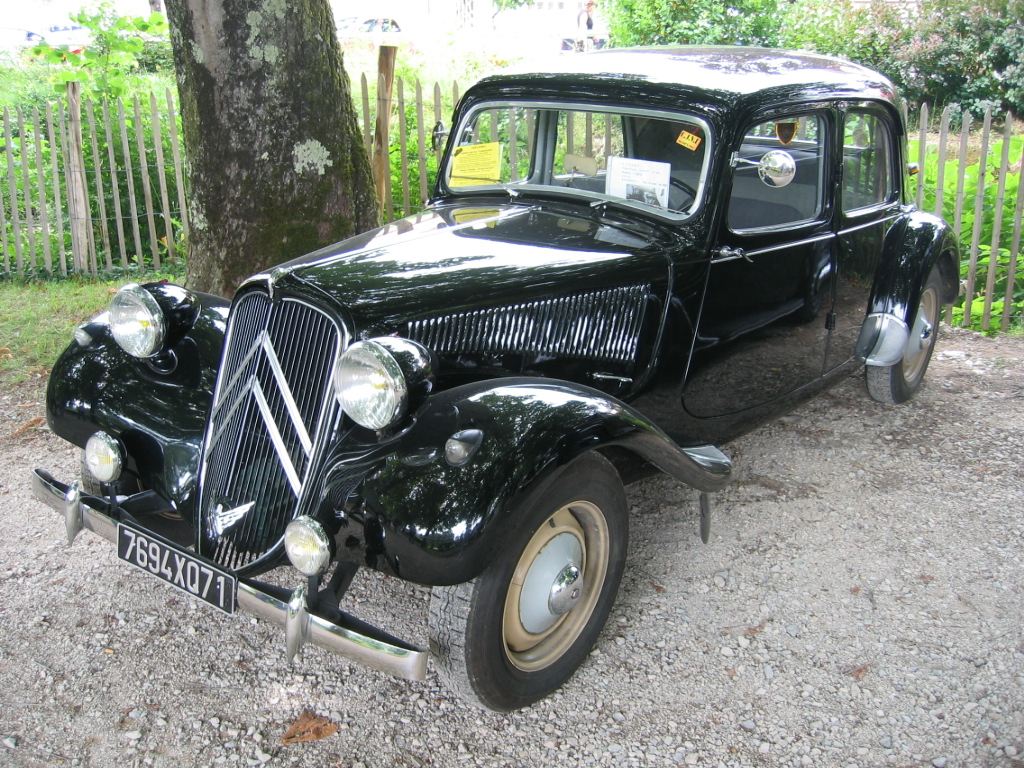 Traction avant Citroen